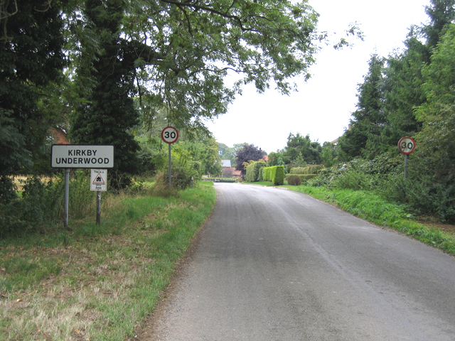 Entrance to the village, Kirkby Underwood, Lincs.